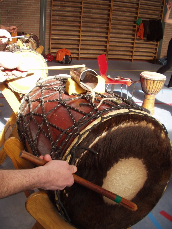 Doundoun, a large west african drum